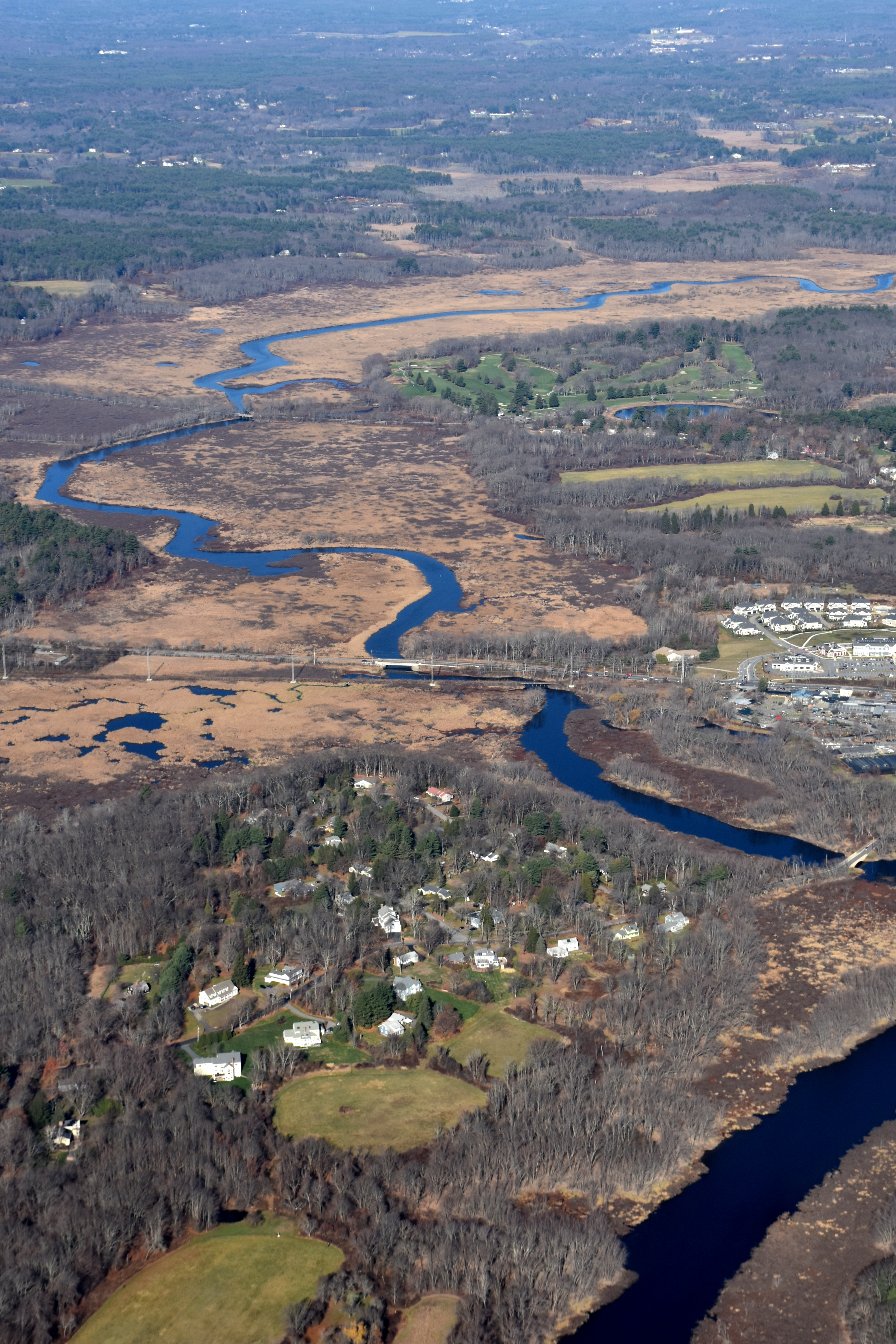 Aerial view of Sudbury River and Great Meadows National Wildlife Refuge in Wayland, MA. Includes Wayland Country Club at mid-right.